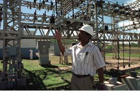 Raymond L. George, Executive Director of the Virgin Islands Water and Power Authority talks about the power system upgrade which included hardening of the power grid. Due to the damage system damage reduction measures, the power outages were limited to only 15% of the island.